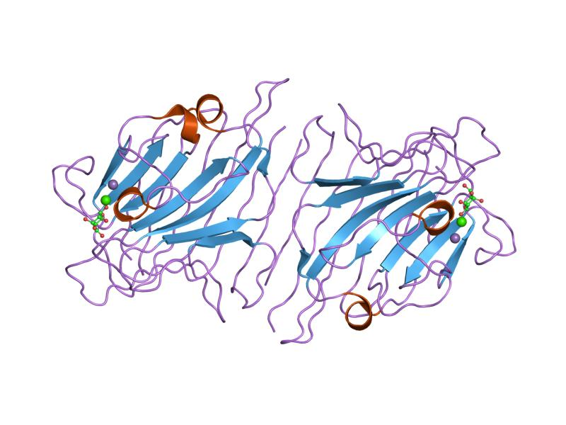 Cartoon representation of the molecular structure of protein registered with 1rin code.